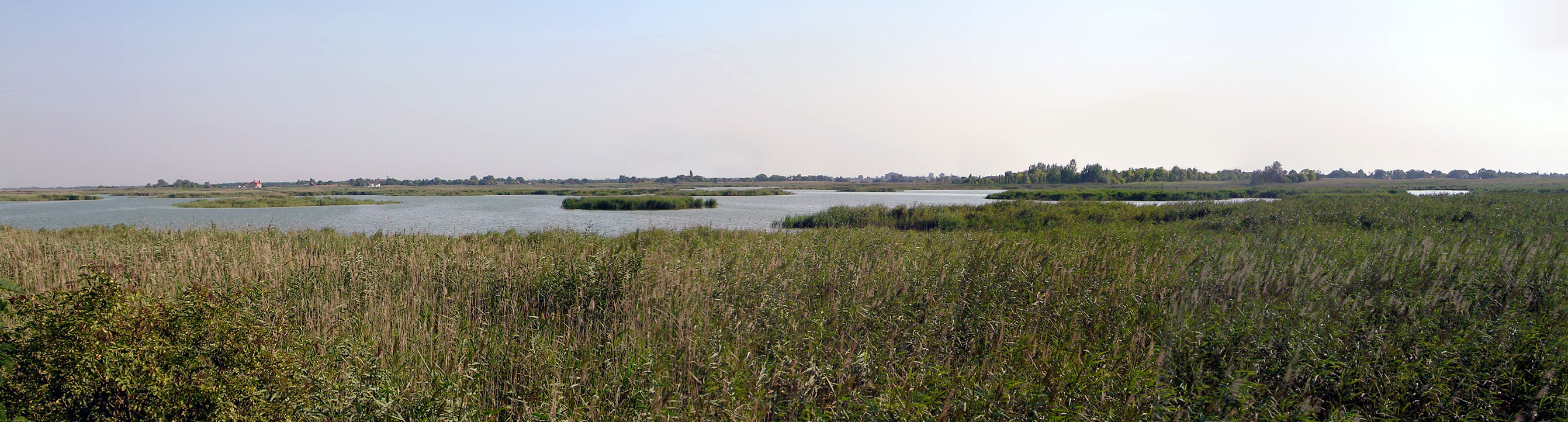 Panoramic view of the lake "Ludas" (serbian: Ludoš) at northern Serbia, Vojvodina province Ово је фотографија заштићеног природног добра у Србији под шифром: {1 } This is a a photo of a natural area in Serbia with ID: {1 }